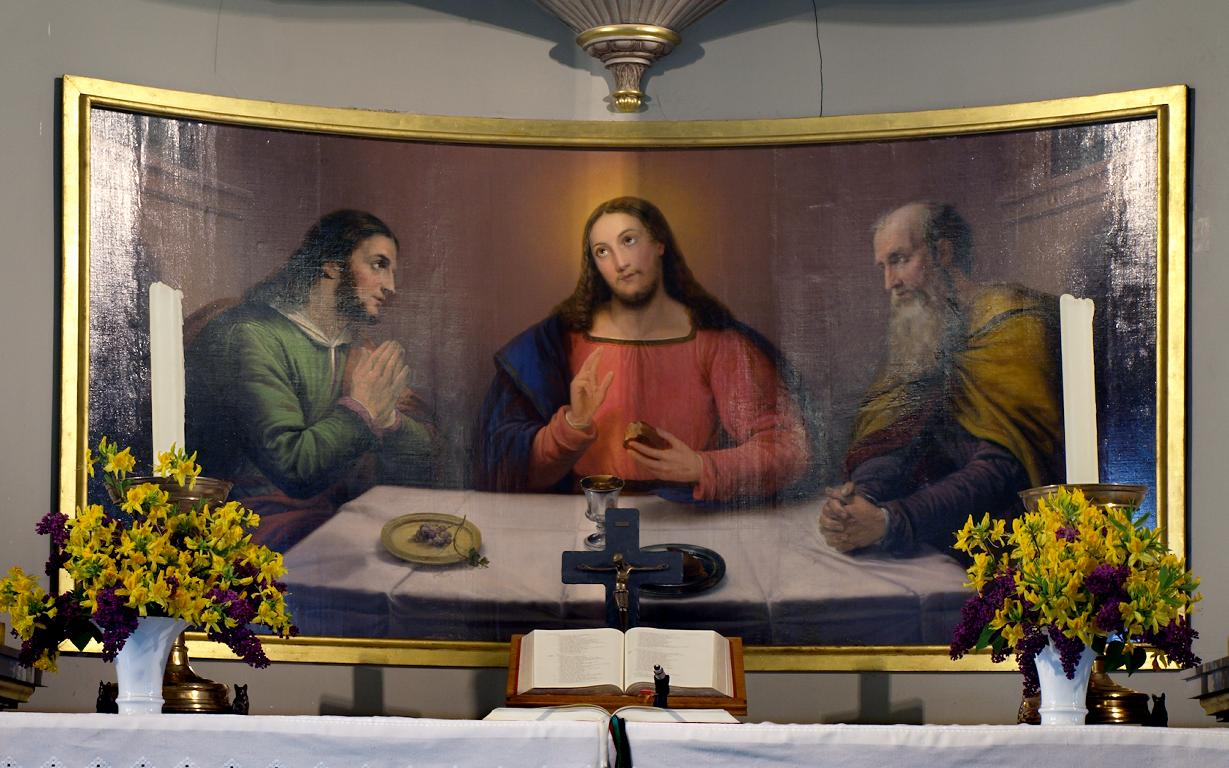 Krempe (Schleswig-Holstein, Germany),Church, Painting at the altar , photo 2009